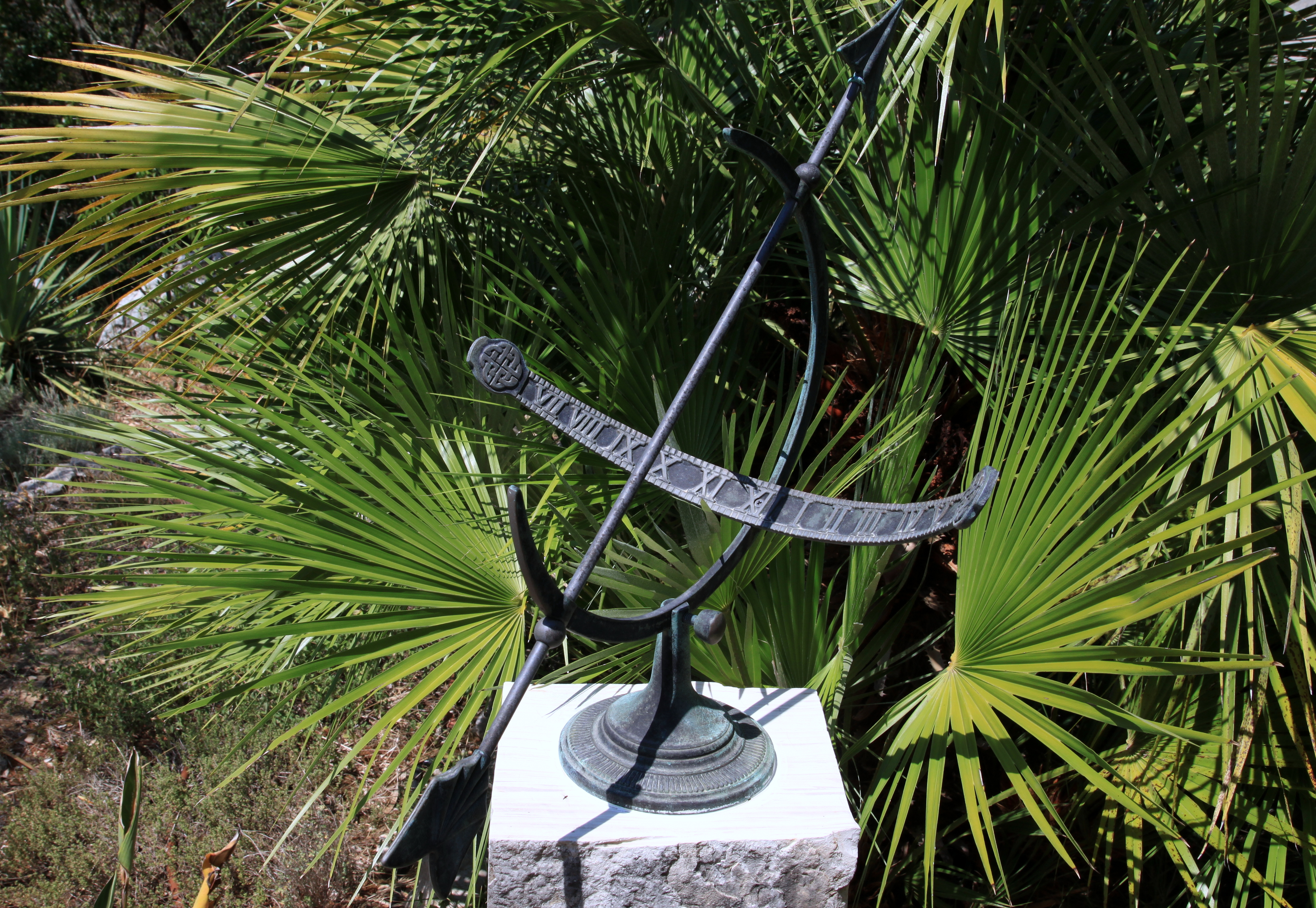 Guduće - Sundial.